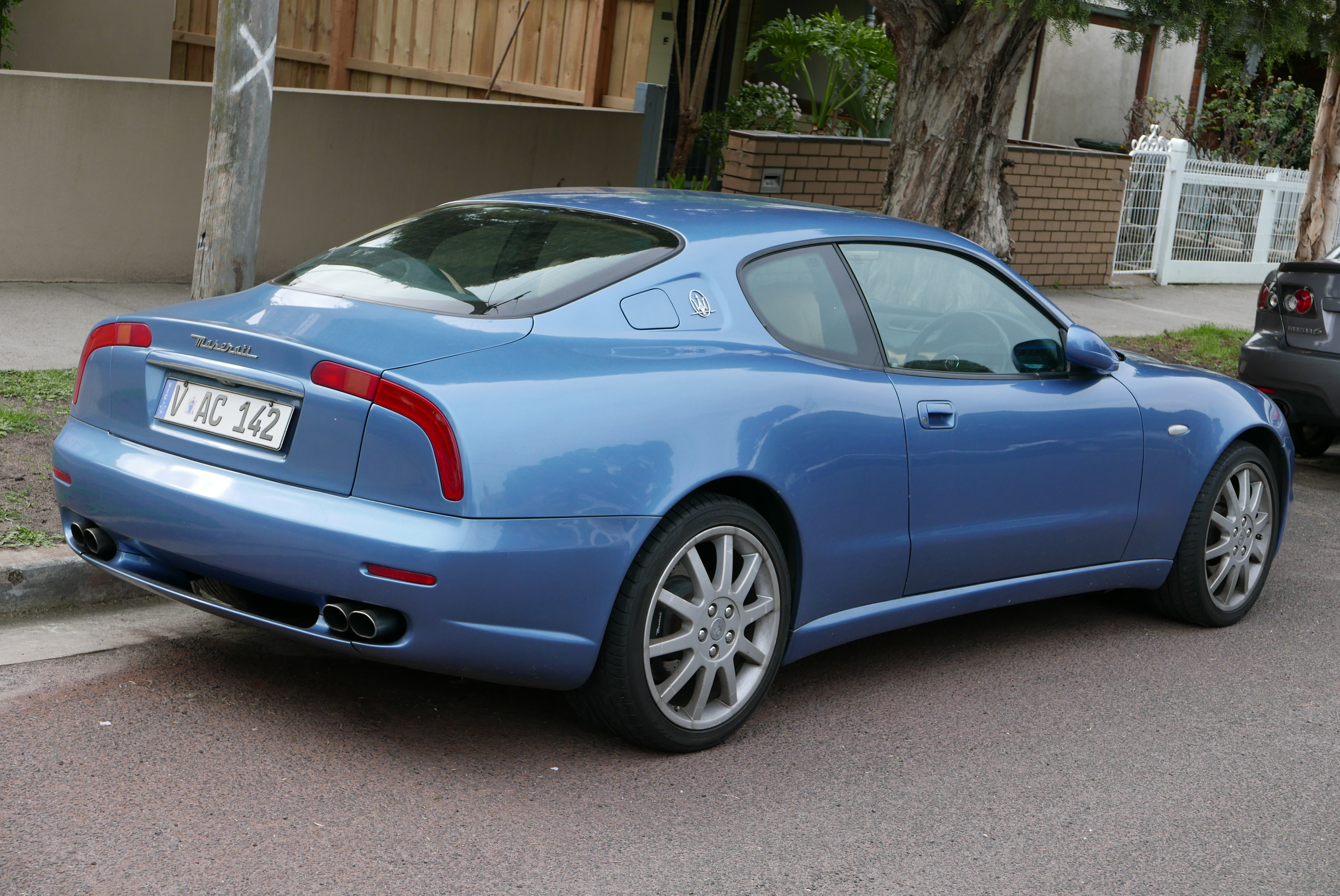 2001 Maserati 3200 GT (M338) coupe. Photographed in Brunswick, Victoria, Australia. Vehicle registration enquiry resultsJurisdictionVictoriaRegistrationVAC142Chassis codeZAMAA38D000003427Engine codeAM585003449Compliance date2001-01Year of manufacture2001